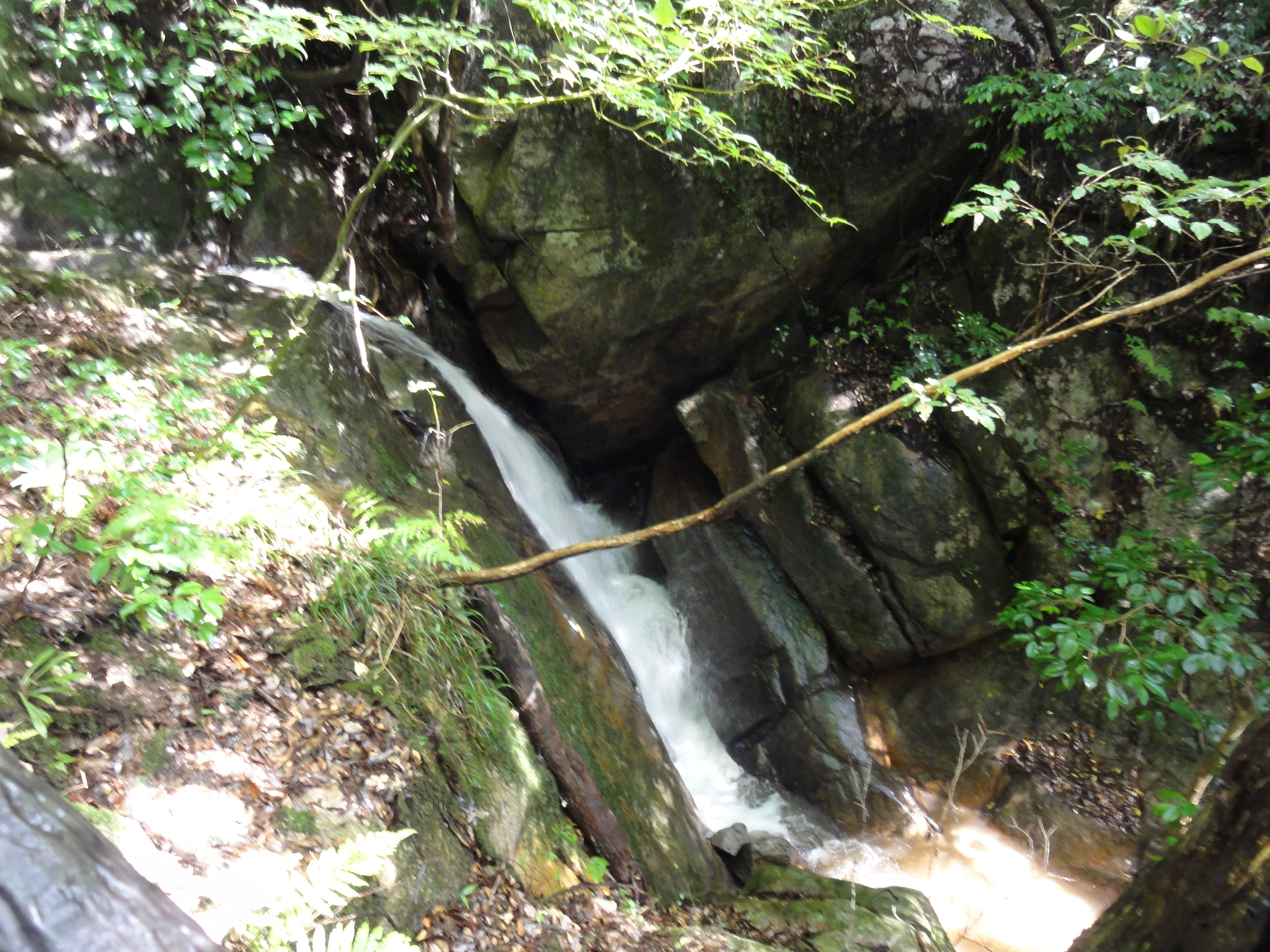 Waterfall of Garyu,Kyoto Pref., Japan